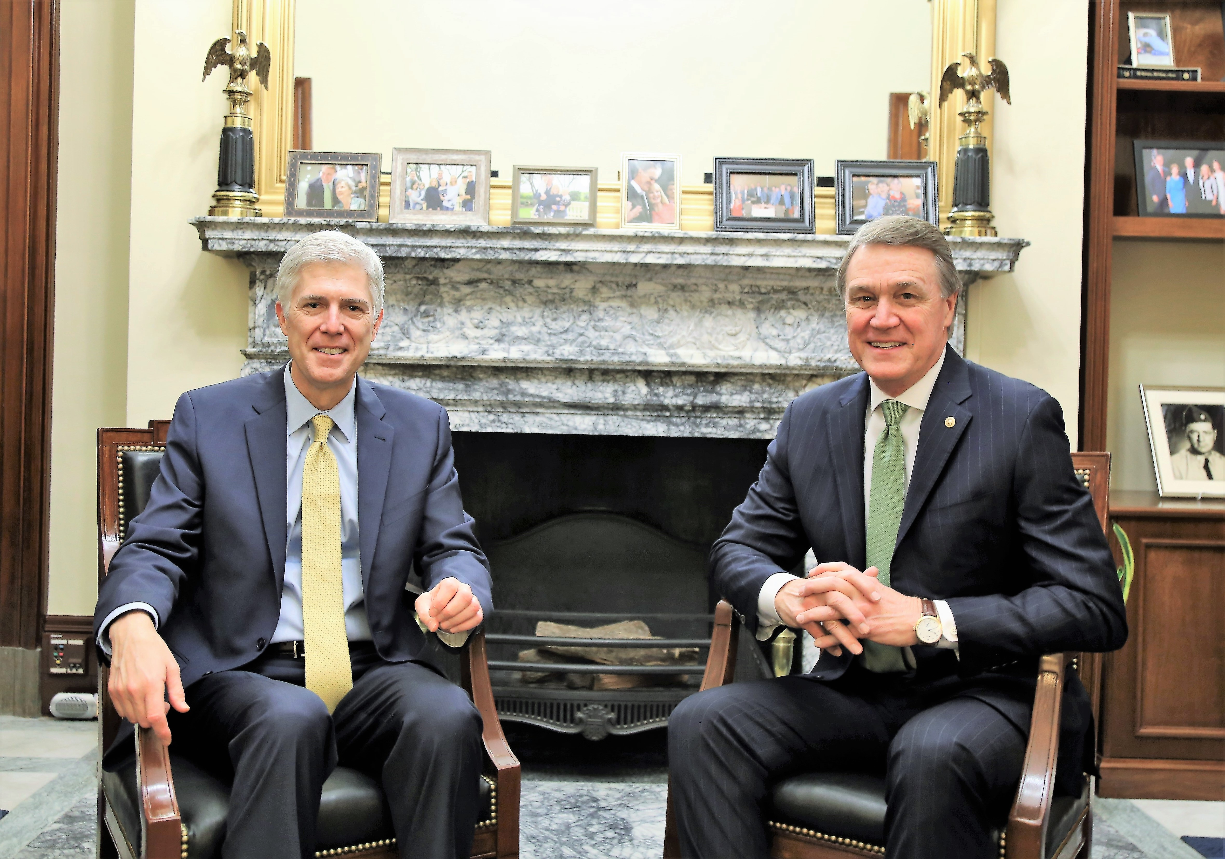 Senator David Perdue with Judge Neil Gorsuch